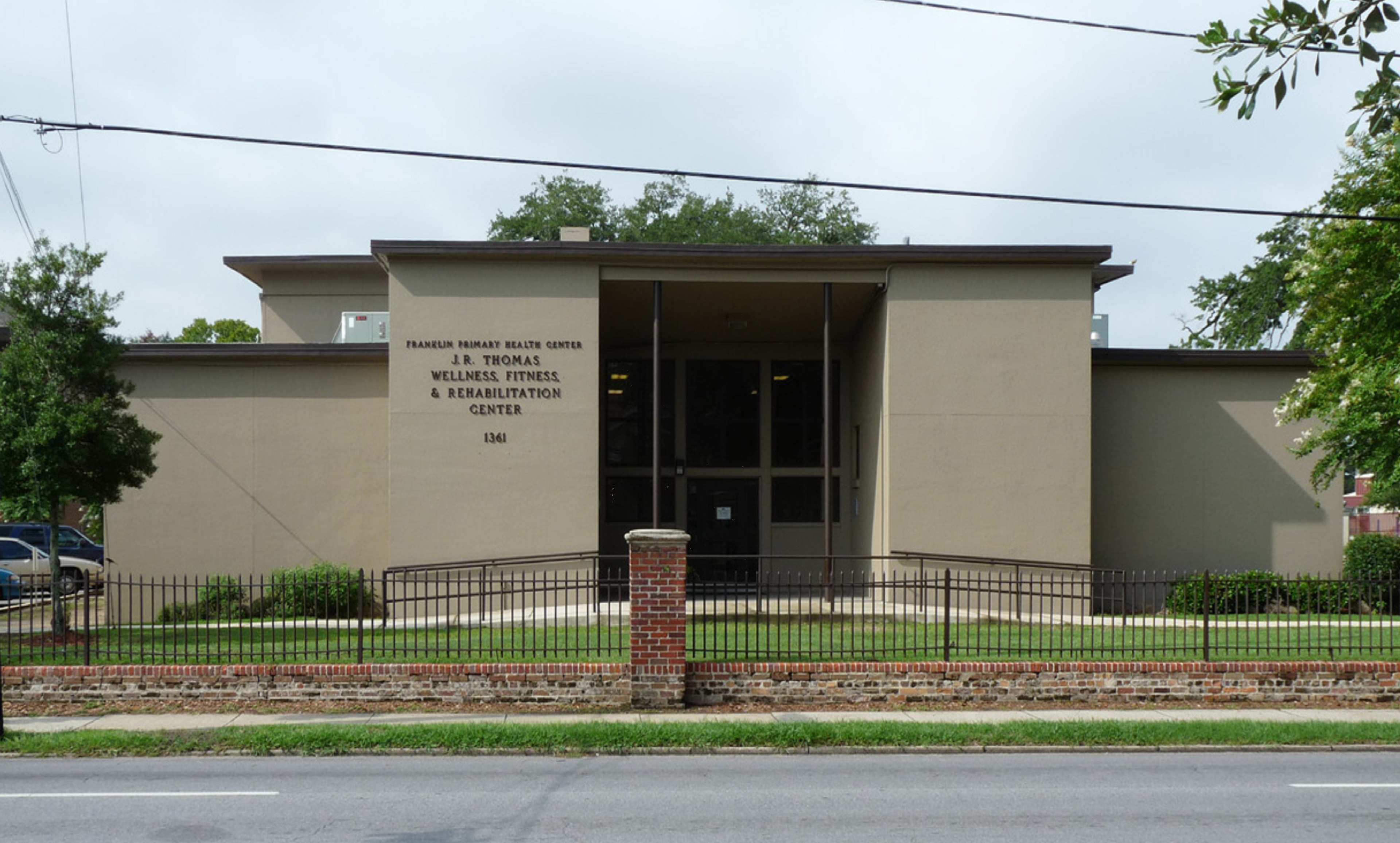 Davis Avenue Recreation Center in Mobile, Alabama. Listed on the NRHP.